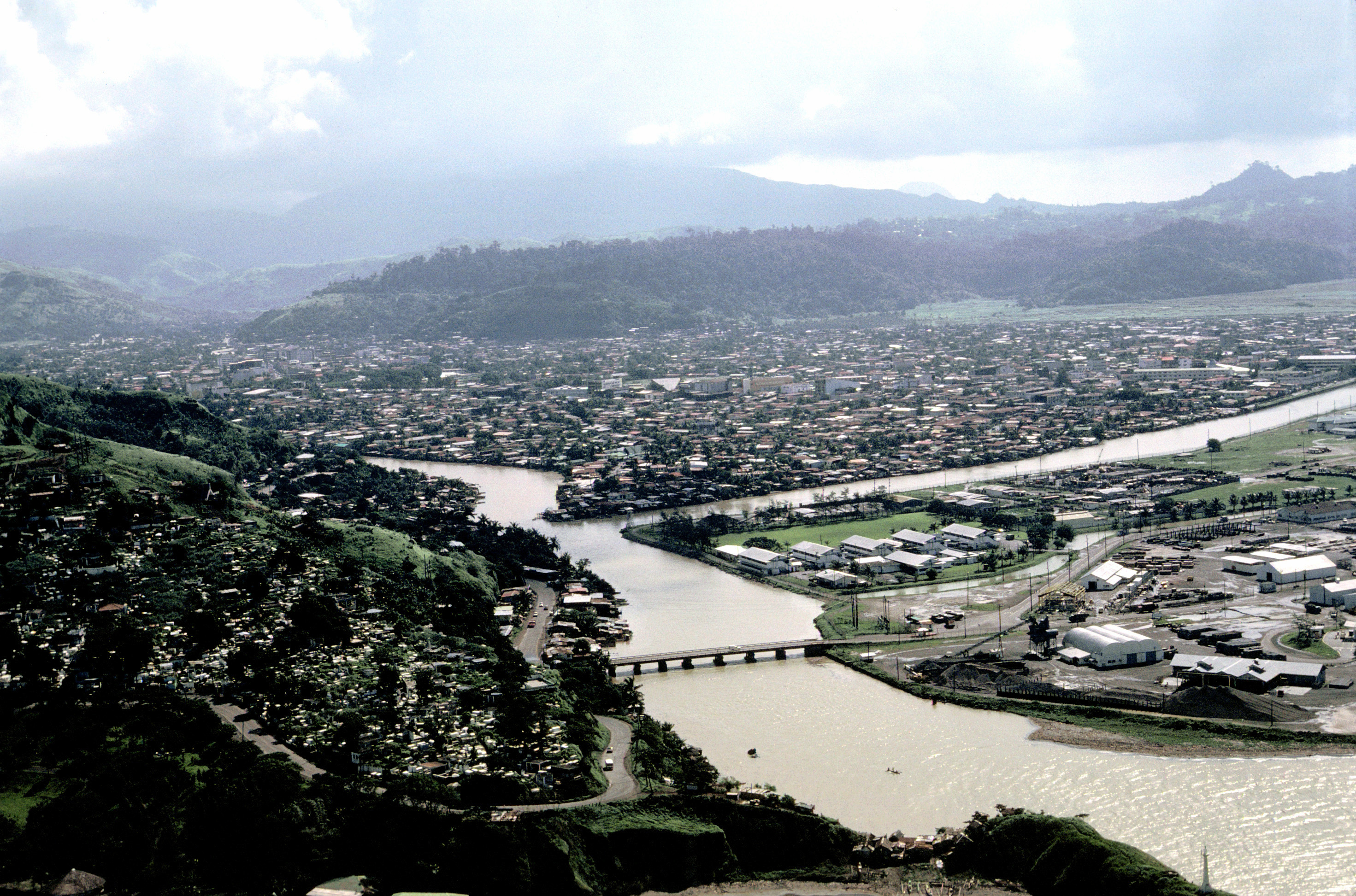 An aerial view of the city of Olongapo. The bridge that leads to the Naval Base, Subic Bay, is visible at bottom right.